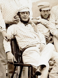 John Wisden, as part of the first English team to tour overseas, on board ship to North America.